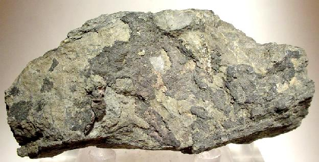 Silver Locality: Dobra Voda, Rudolfov, České Budějovice (Budweis), South Bohemia Region, Bohemia (Böhmen; Boehmen), Czech Republic (Locality at ) A very rich, old-time ore specimen of oxidized, platty silver on matrix from a classic Czech locality. The piece comes with a yellowed Schortmanns label. Ex Richard Hauck Collection. 8.2 x 3.8 x 3.6 cm